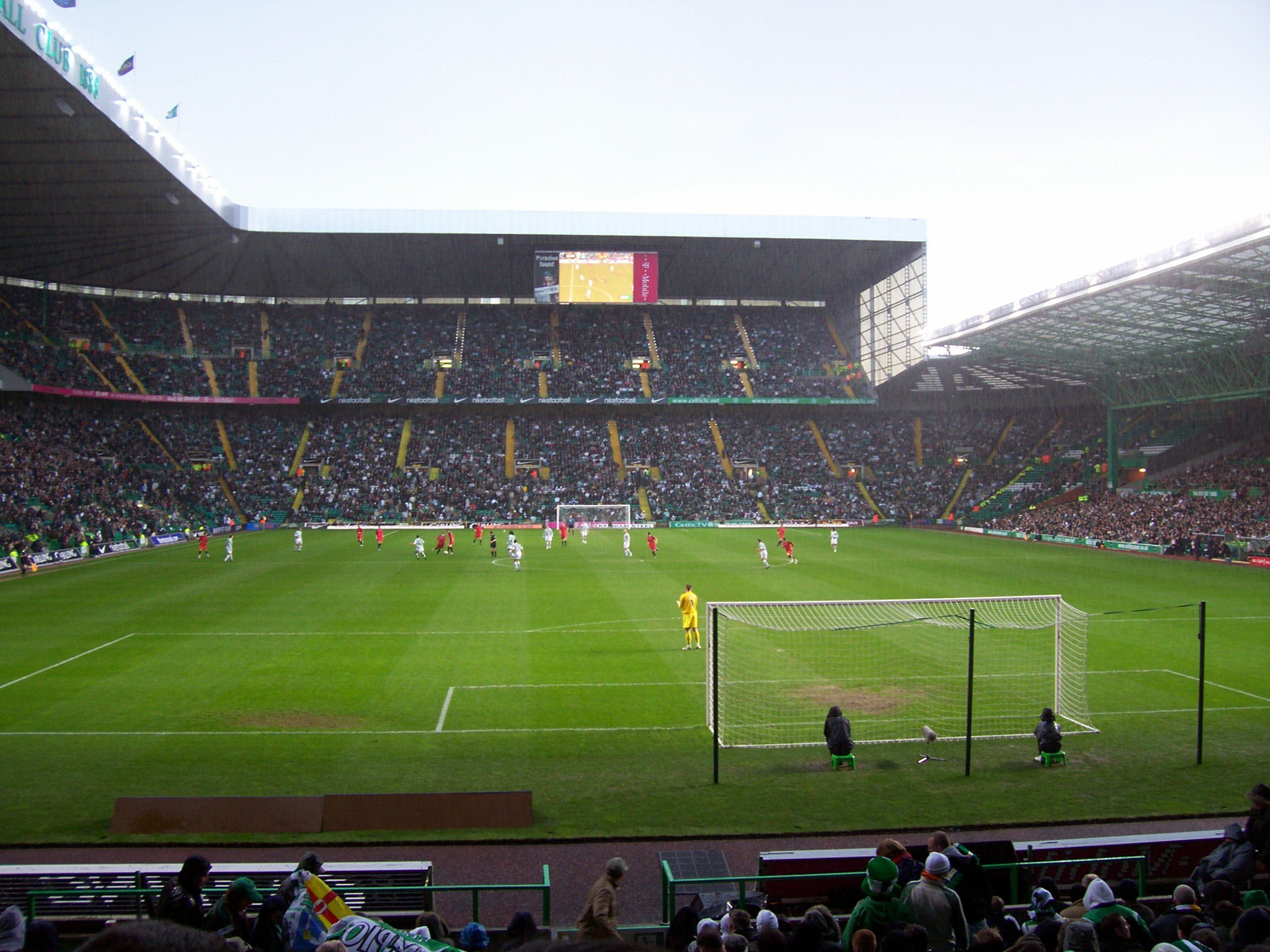 It started to rain. But hey, at least we weren't playing in it.